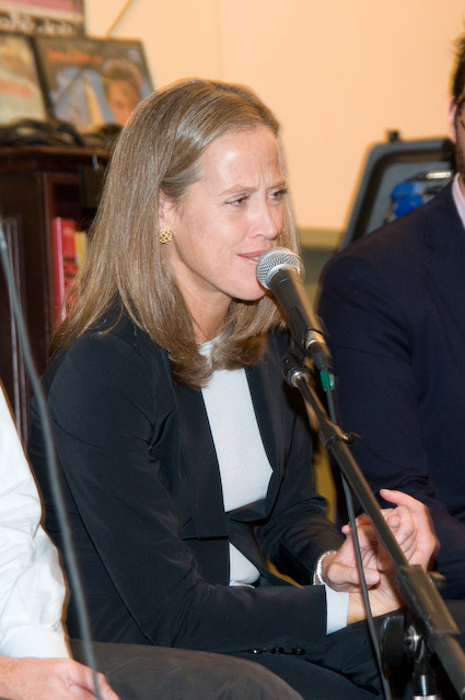 Wendy Kopp, Founder & CEO TeachforAmerica